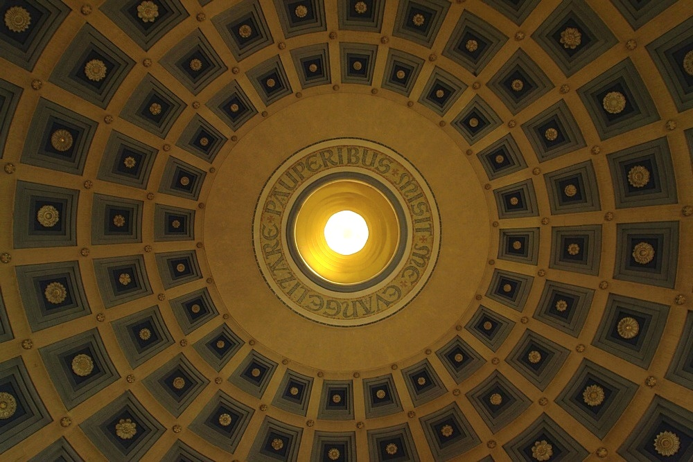 Vincent de Paul Basilica in Bydgoszcz